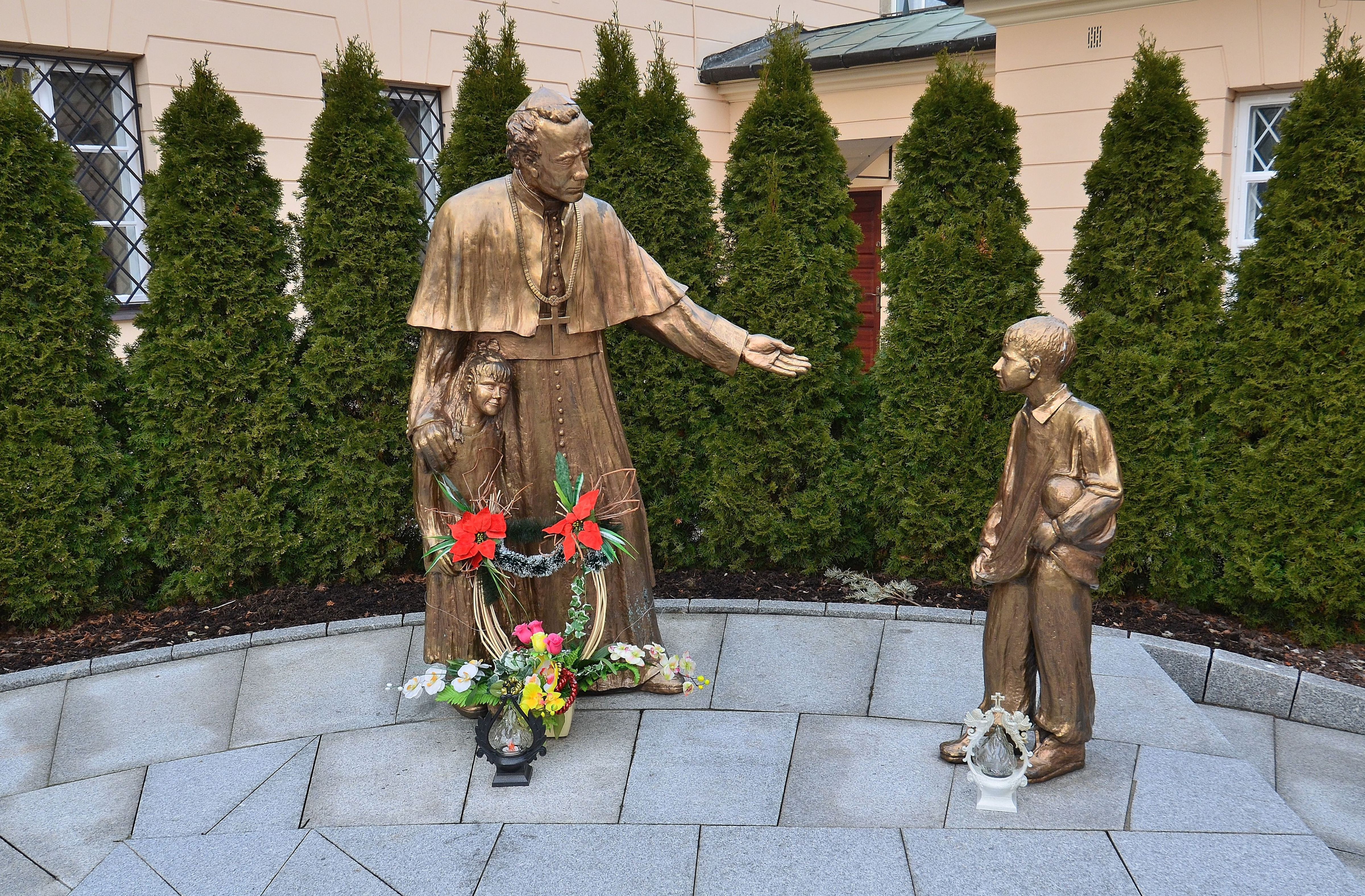 Monument of Zygmunt Szczęsny Feliński in the courtyard of Bogusławski Palace in Warsaw